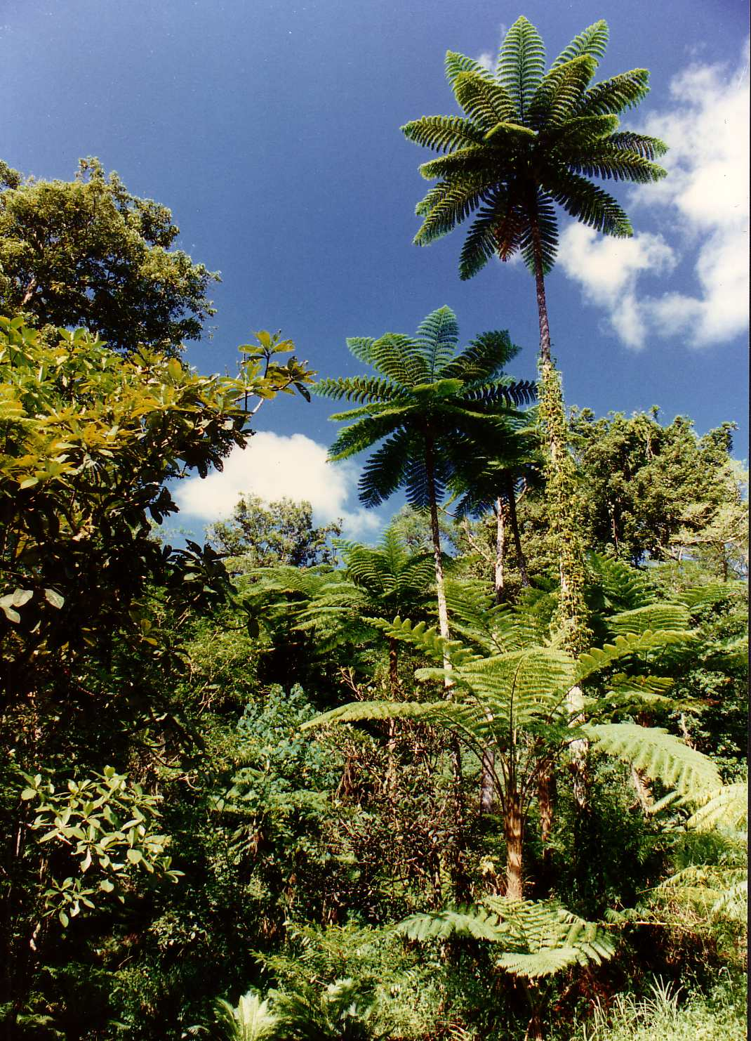 Fougères arborescentes (Cyathea Intermedia)